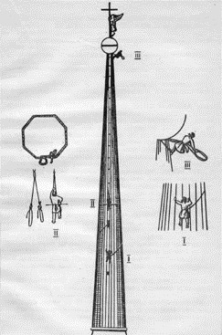 Peter Telushkin - the first Russian industrial climber